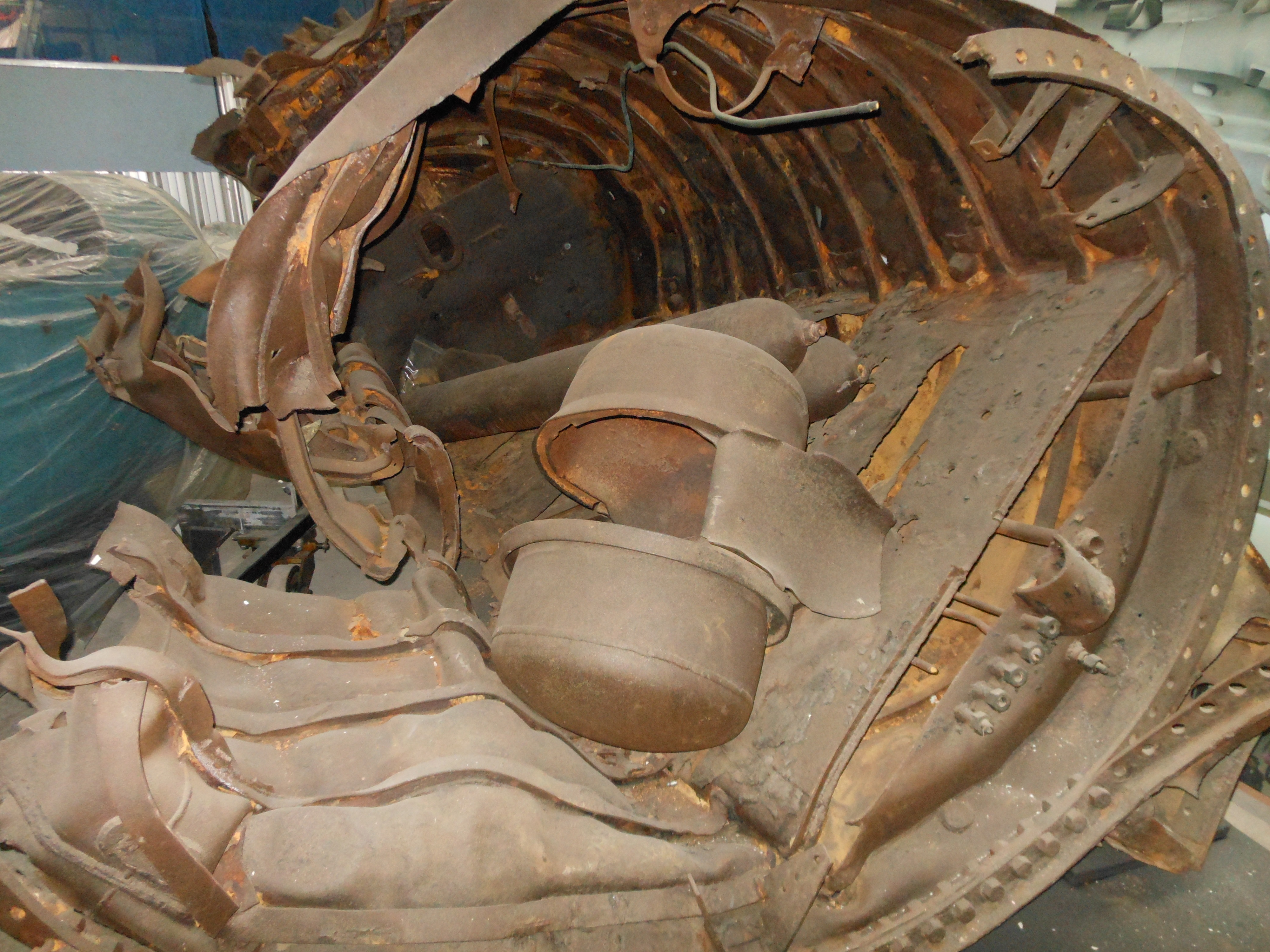 Wreckage of X7 midget submarine